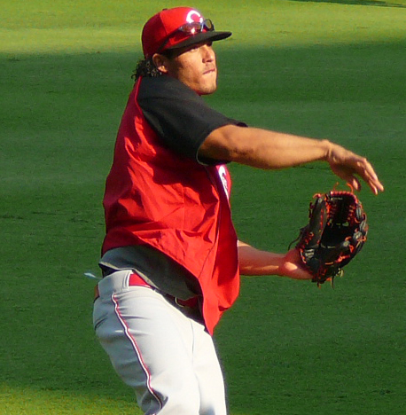 If used somewhere other than Wikipedia, Nelson, by name. 03:56, 20 September 2009 . . Chrisjnelson . . 458×468 (205 KB)